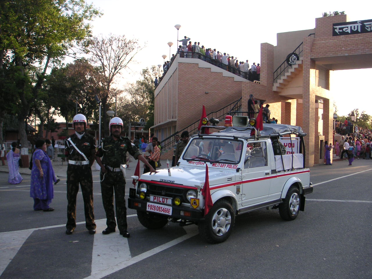 Military Police posing for a picture at Wagah border. Photo: Soman